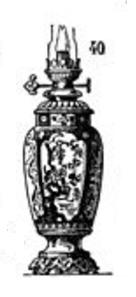 An ornate carcel lamp. A major form of interior lighting during the early years of the nineteenth century. A clockwork motor in the base pumps oil to the burner at the top. Earlier lamps were gravity fed with an oil reservoir above the burner making them top heavy.